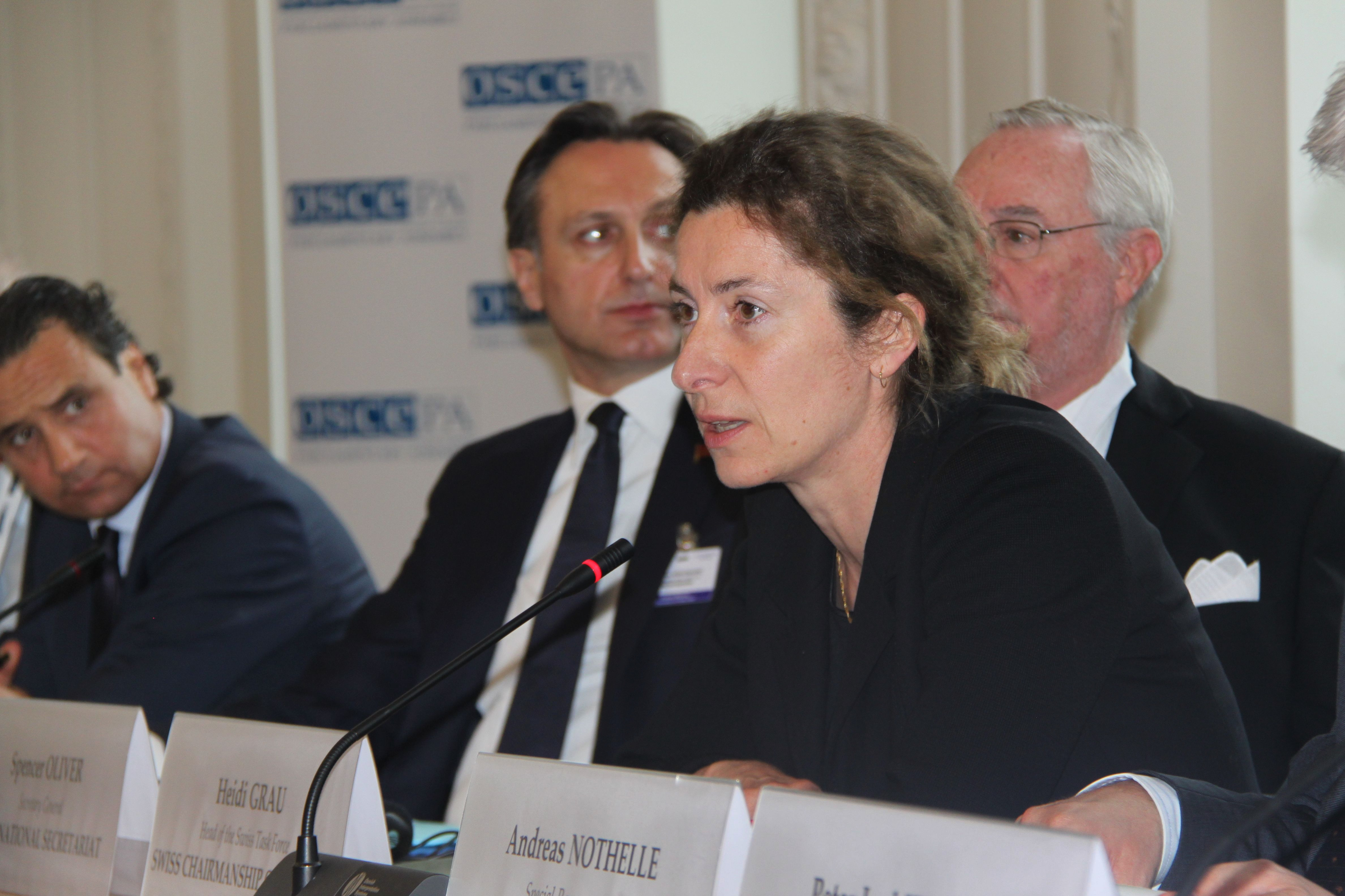 Amb. Heidi Grau, Head of the Swiss OSCE Chairmanship Task Force, addresses the OSCE PA Bureau Mtg., 7 April 2014, Copenhagen